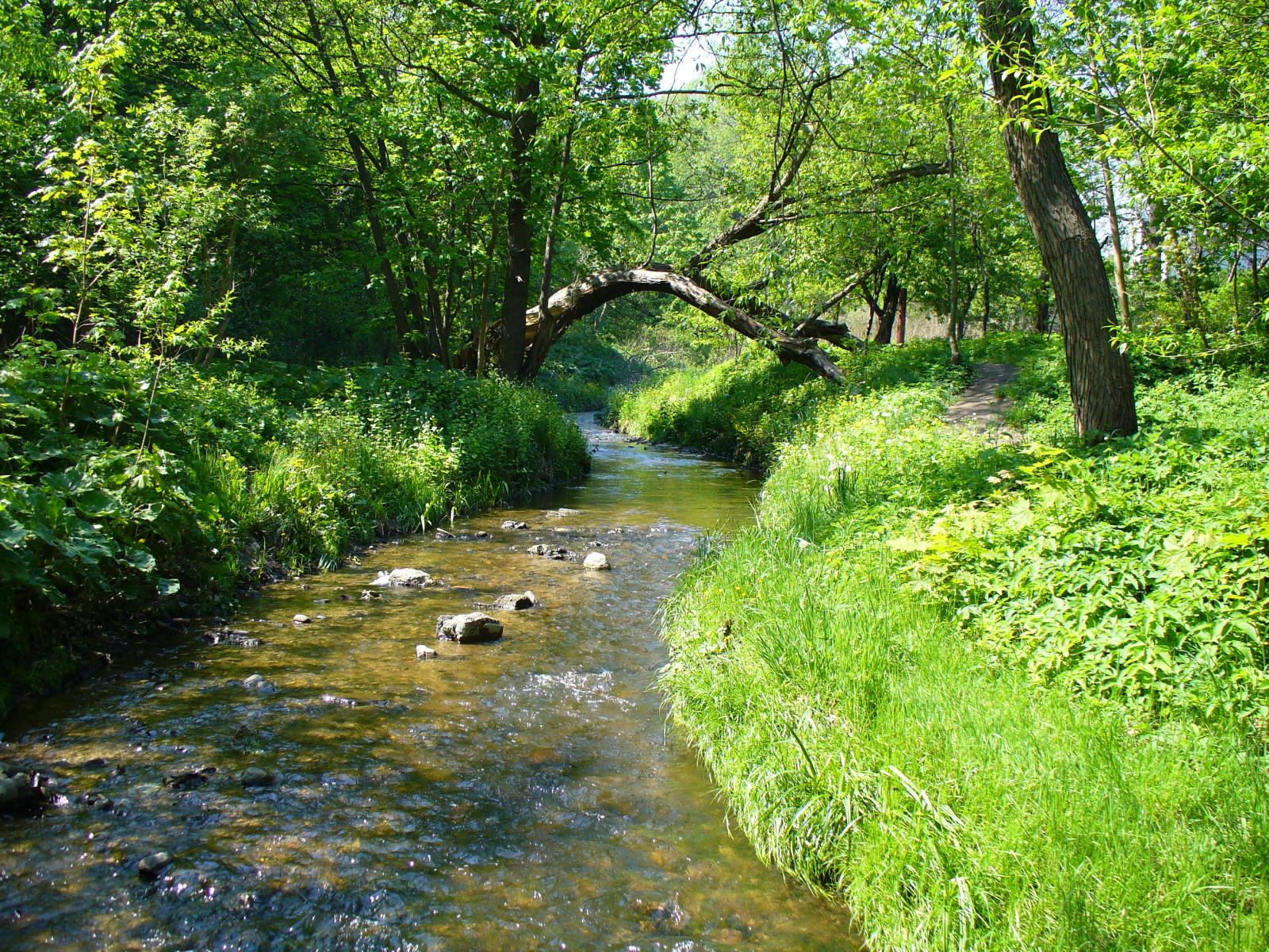 Kacza River, Gdynia, Poland.